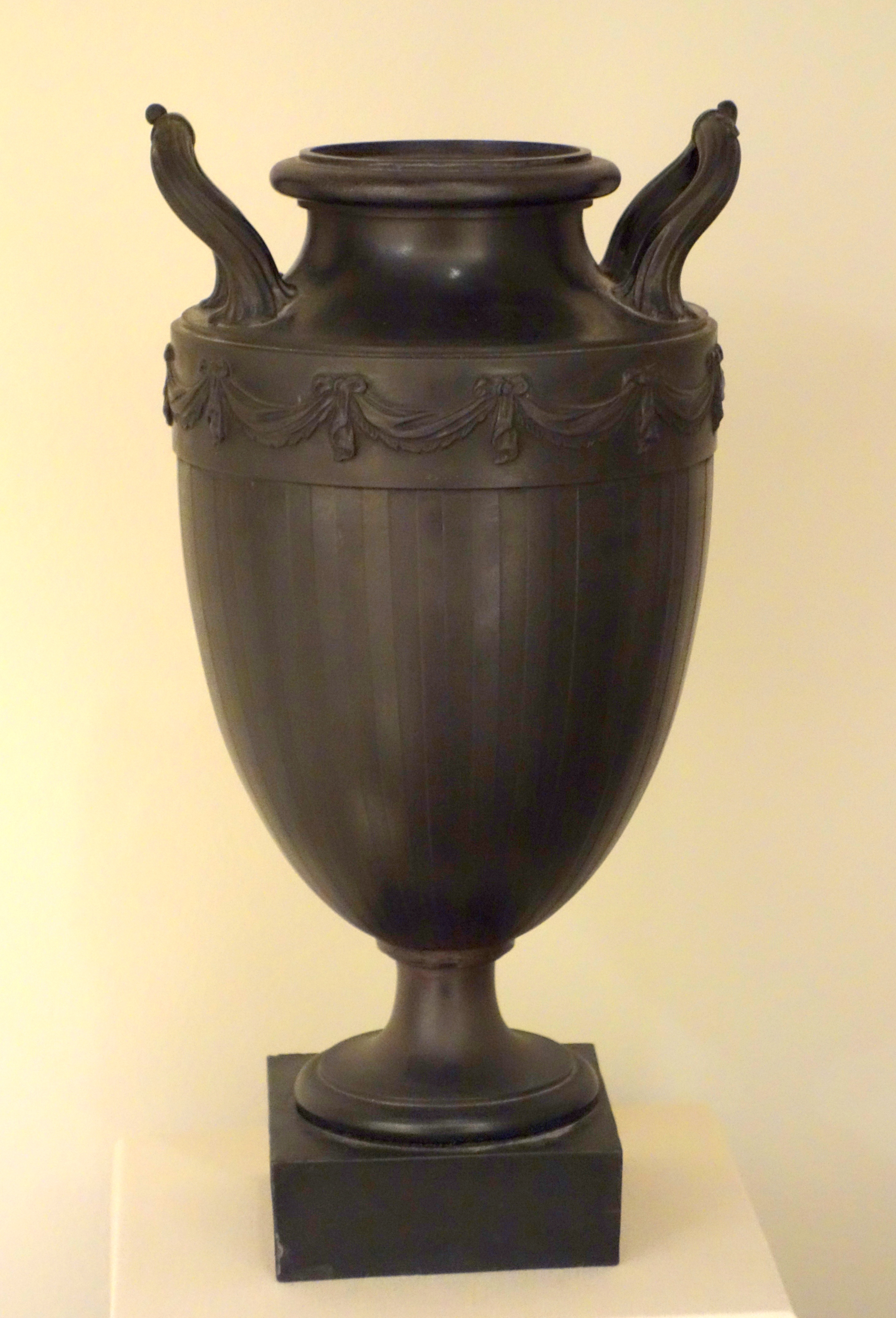 Exhibit in the Chazen Museum of Art, University of Wisconsin-Madison, Madison, Wisconsin, USA. This artwork is old enough so that it is in the public domain.